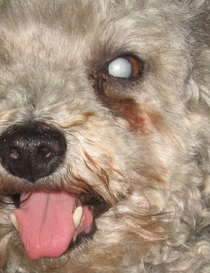 Cataract in dog eye